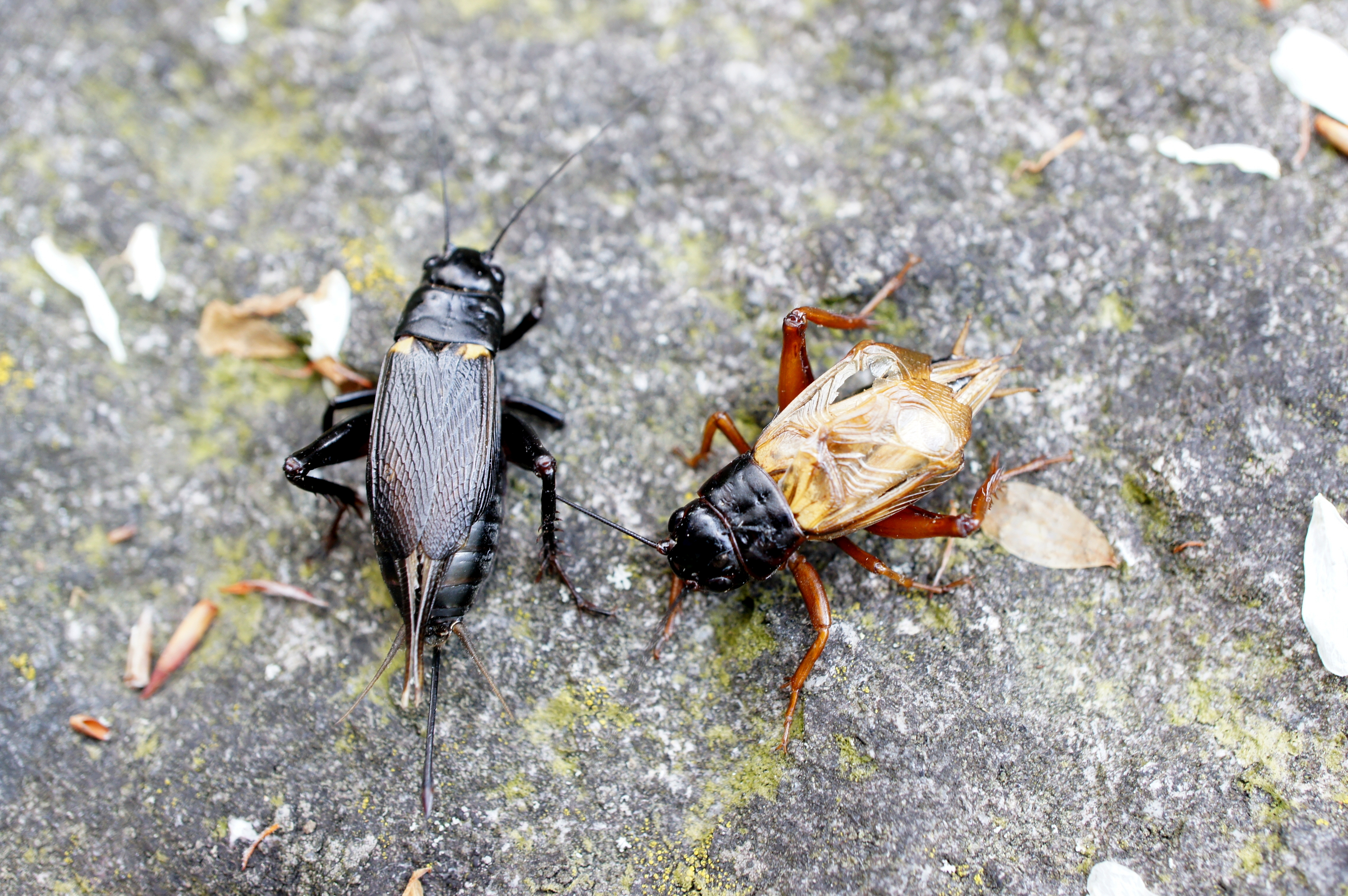 mediterranean field cricket, Gryllus bimaculatus, male and female, captive breeding